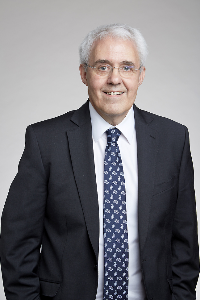 Anthony Raymond Bell FRS is Professor of Physics at the University of Oxford and the Rutherford Appleton Laboratory Attribution: The Royal Society